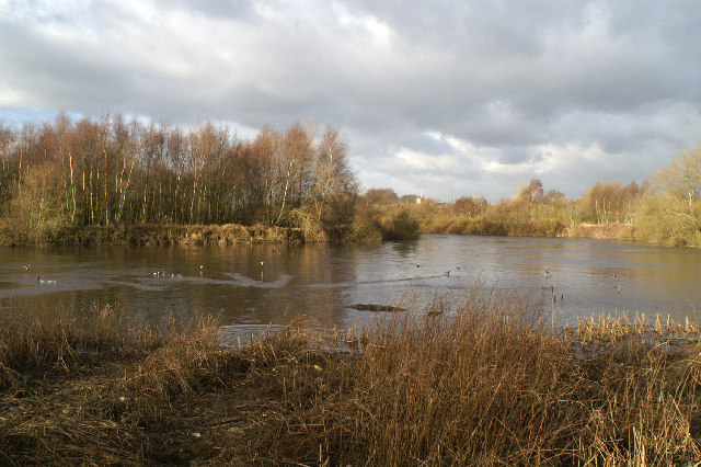 The quality of Mersey. One of the bends in the Mersey by-passed by the Woolston New Cut on the Mersey & Irwell Navigation.